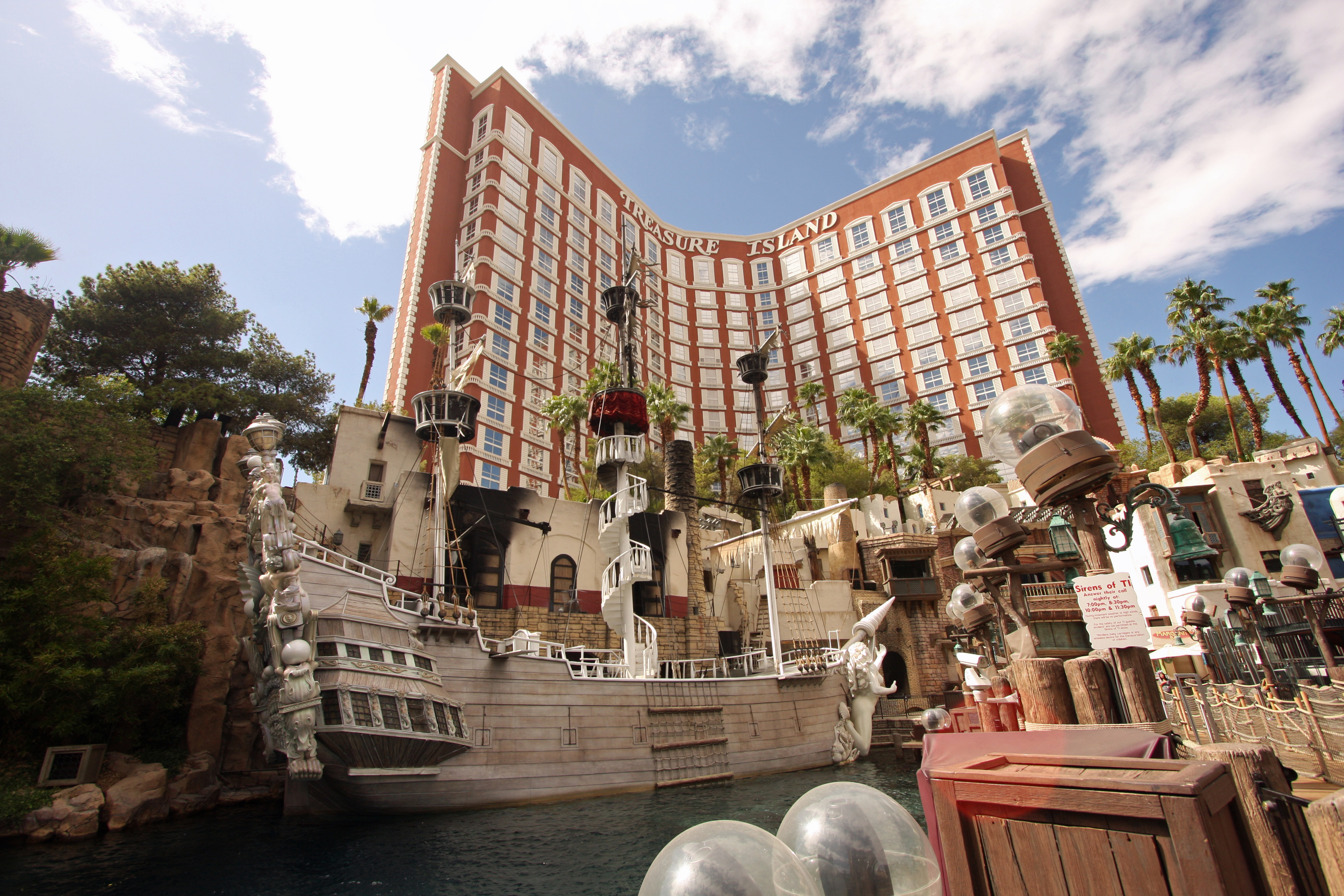 Treasure Island